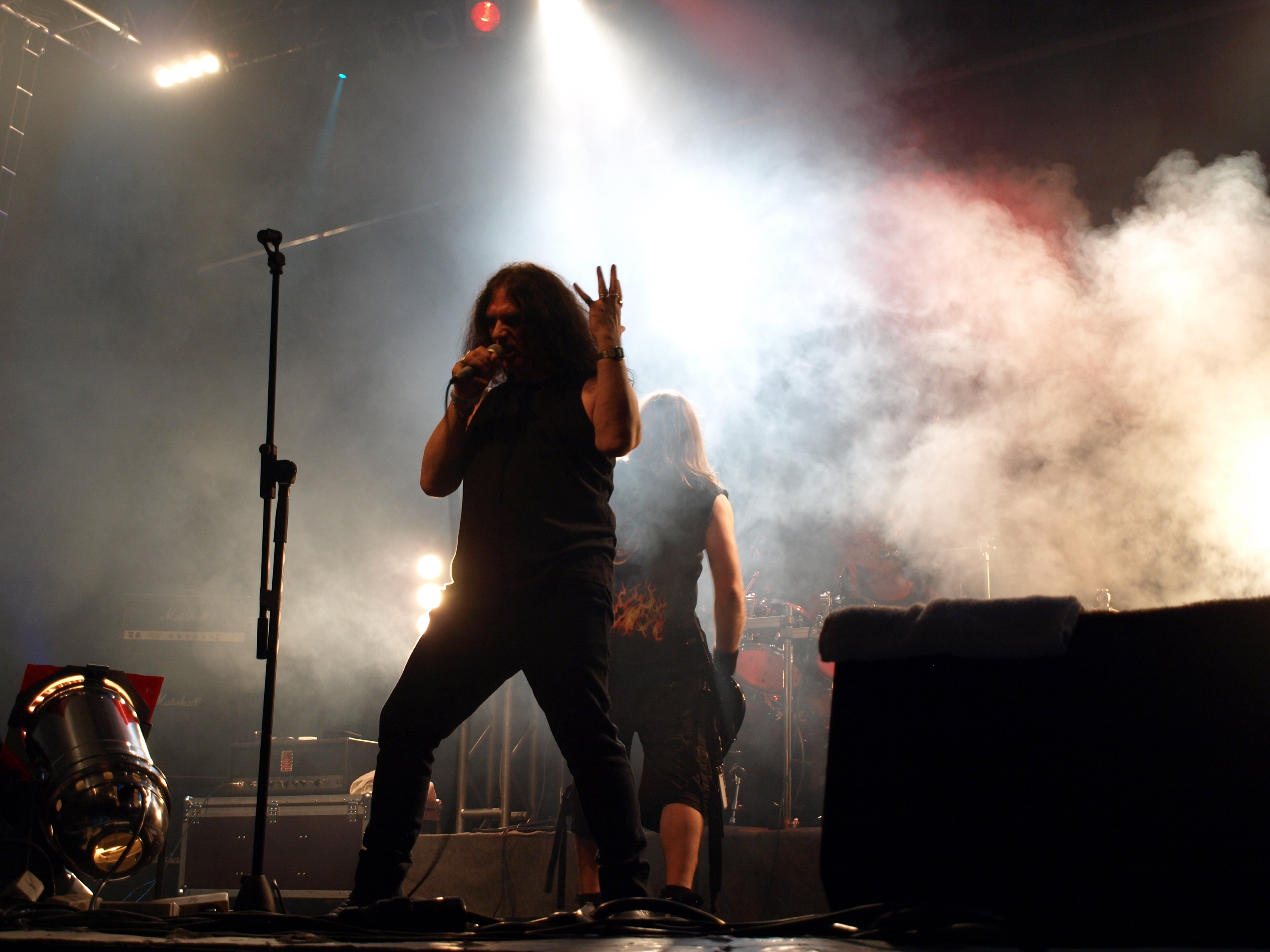 British heavy metal band Blitzkrieg live at Jalometalli 2008 in Oulu.